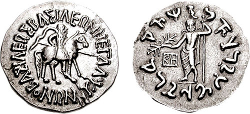 Coin of the Indian-Parthian king Vonones